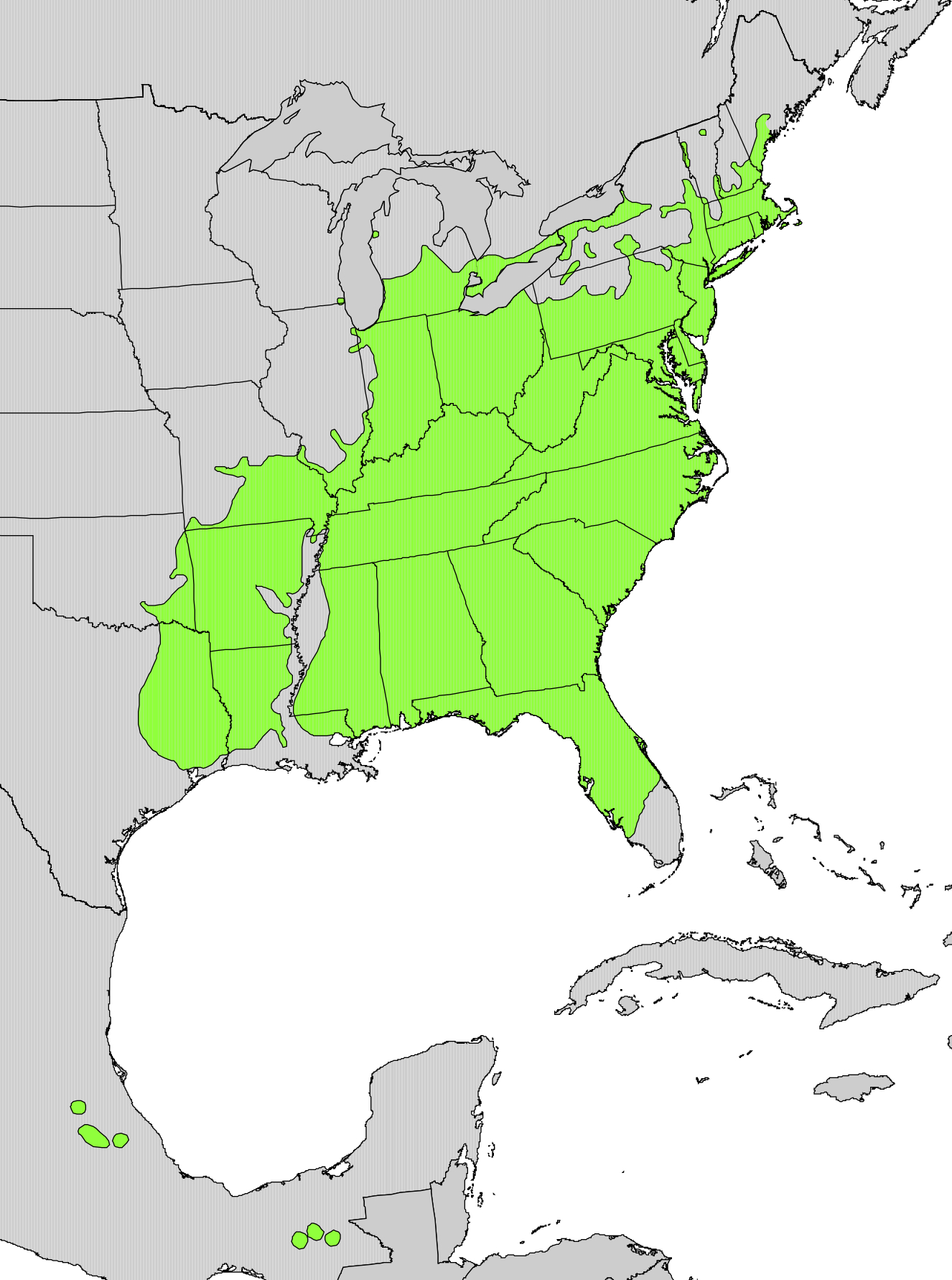 Range map of Nyssa sylvatica.